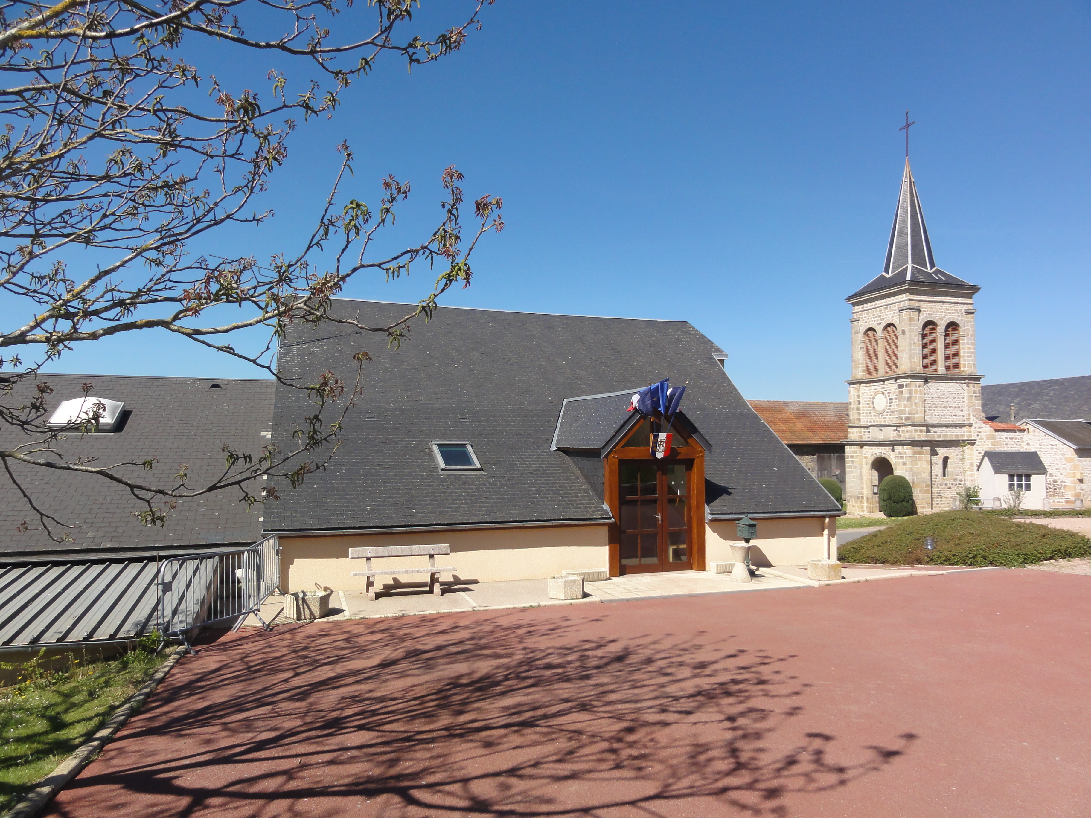 Bussières-près-Pionsat (Puy-de-Dôme) mairie et église